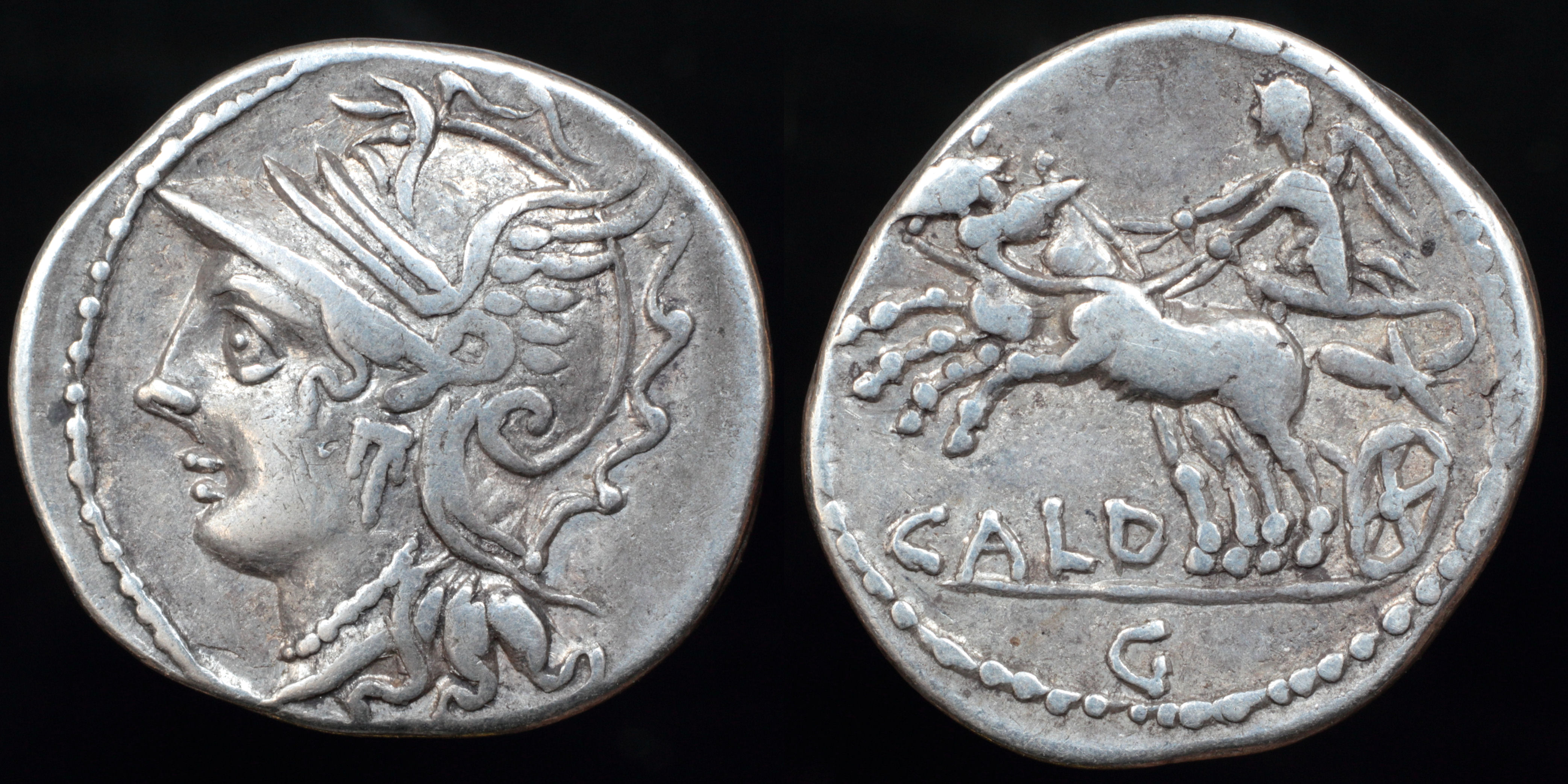 silver denarius struck in Rome 104 BC obverse: helmet head of Roma left reverse: Victory in biga left, CALD below, G in exergue references: RSC I Coelia 3, Crawford 318/1b, Sydenham 582a, SRCV I 196